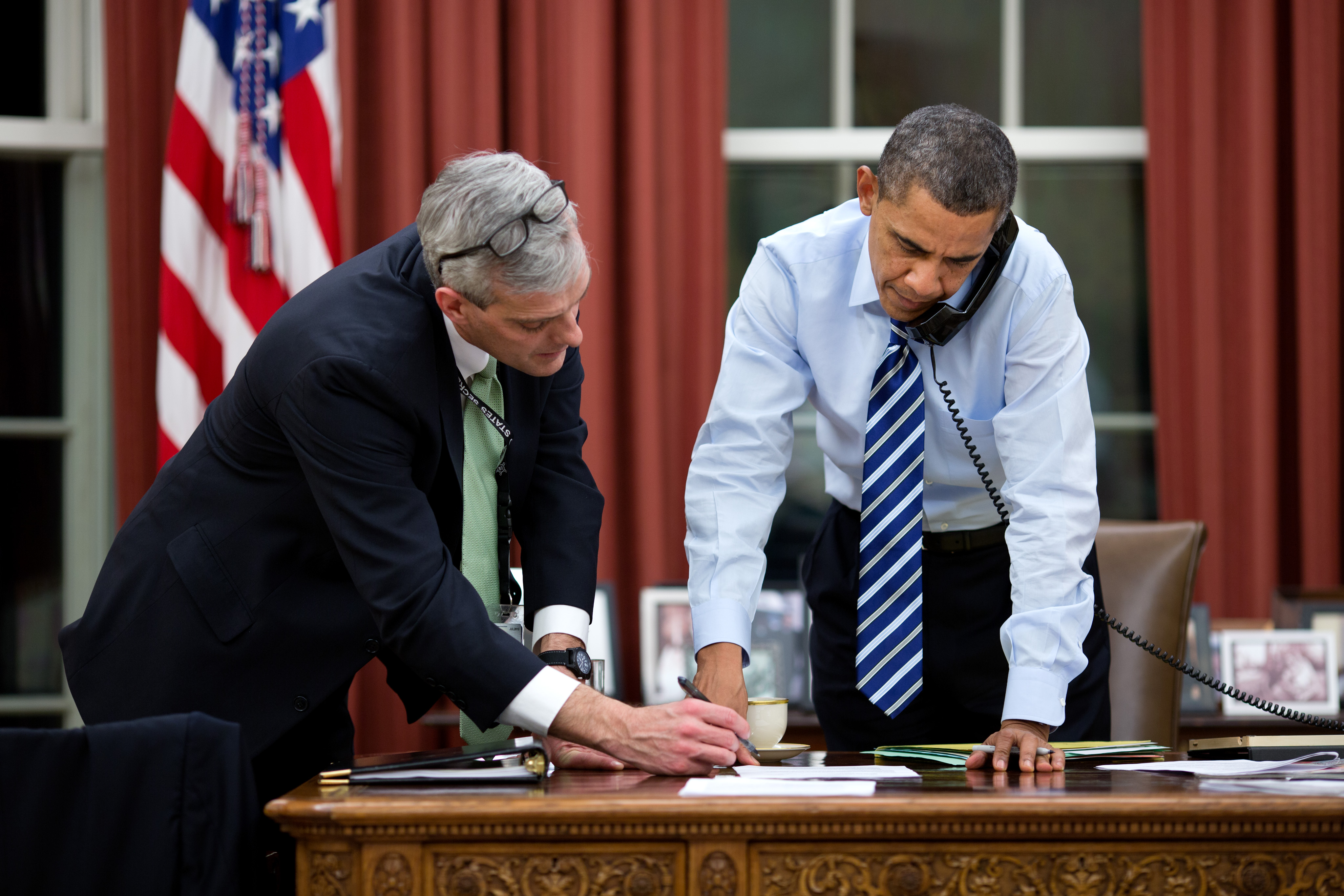 President Barack Obama confers with Chief of Staff Denis McDonough as he talks on the phone in the Oval Office, Feb. 6, 2013. (Official White House Photo by Pete Souza)